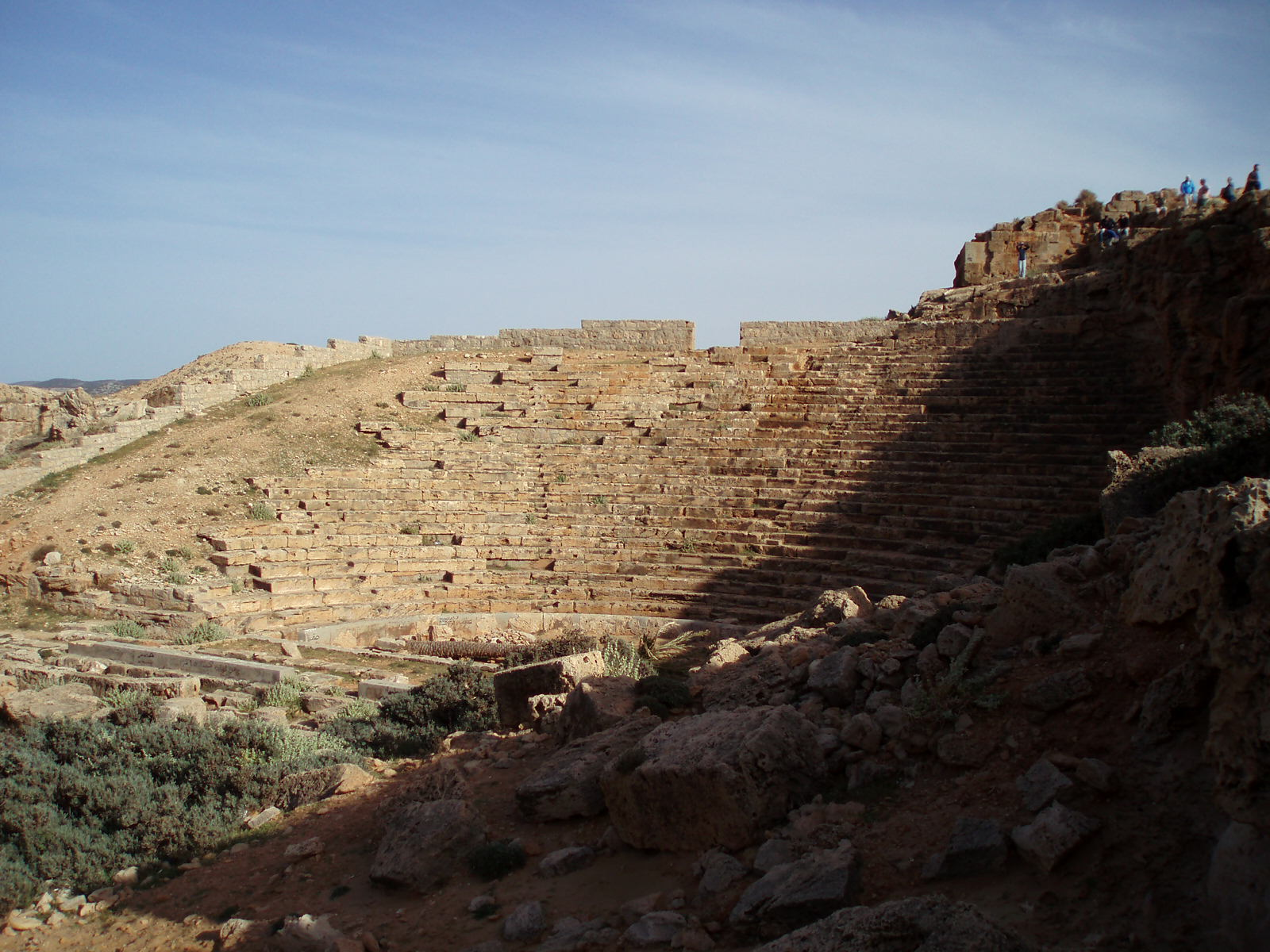 The theatre at Apollonia, the ancient port of Cyrene, Libya.